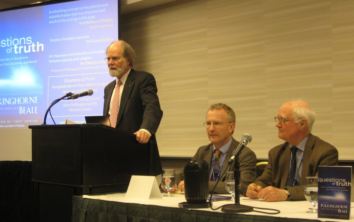 Prof Jim McCarthy (standing) chairing the launch workshop of Questions of Truth at the AAAS Annual Meeting 2009 with the authors John Polkinghorne (right) and Nicholas Beale